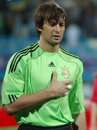 Oleksandr Shovkovskiy in Ukraine national football team